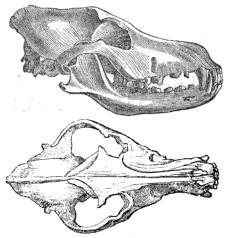 Illustration of dingo skull, uploaded from